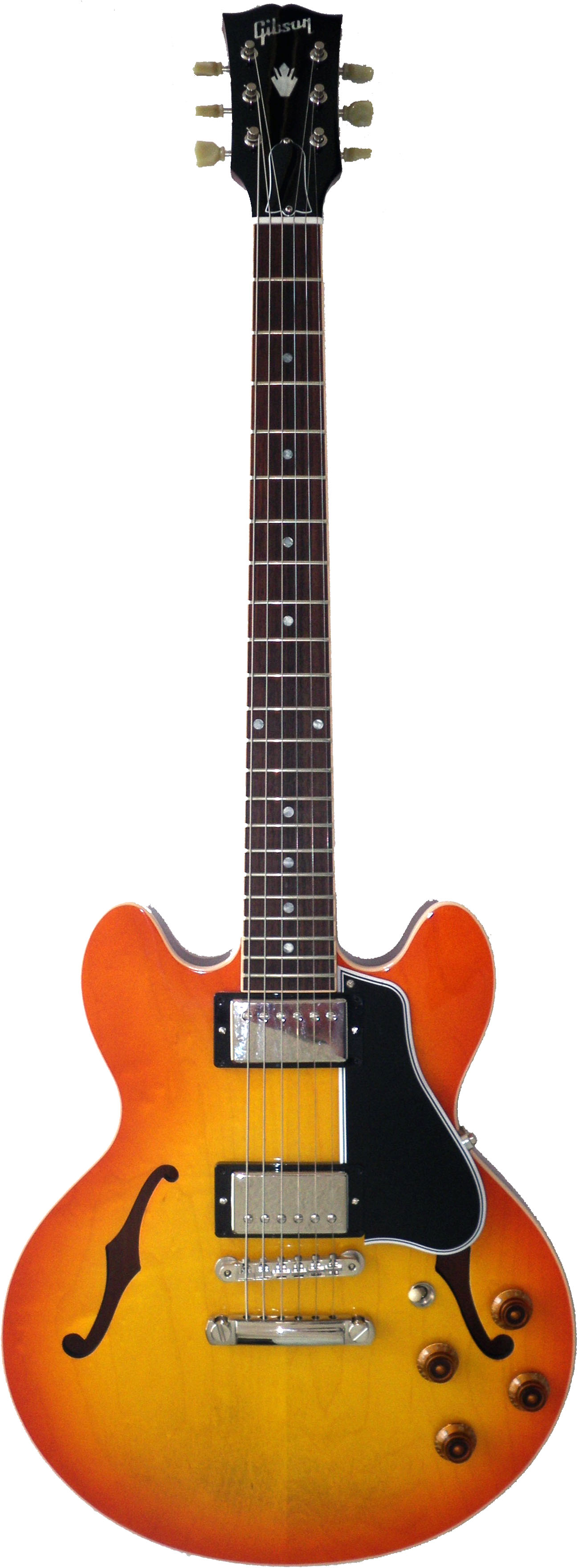 Gibson CS-336 guitar in Tangerine Burst colour